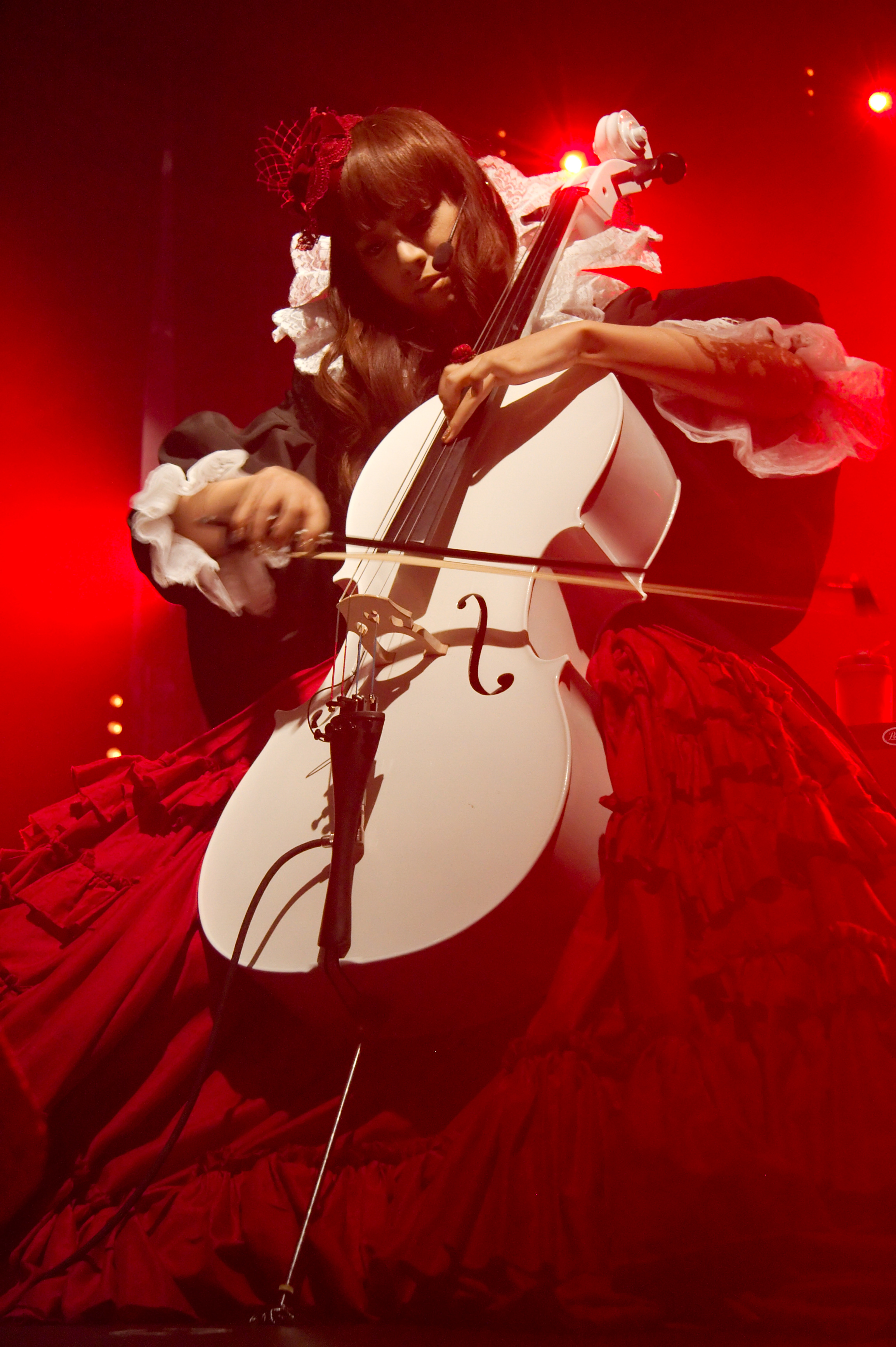 Kanon Wakeshima live at Japan Expo 2009 (Paris, France)